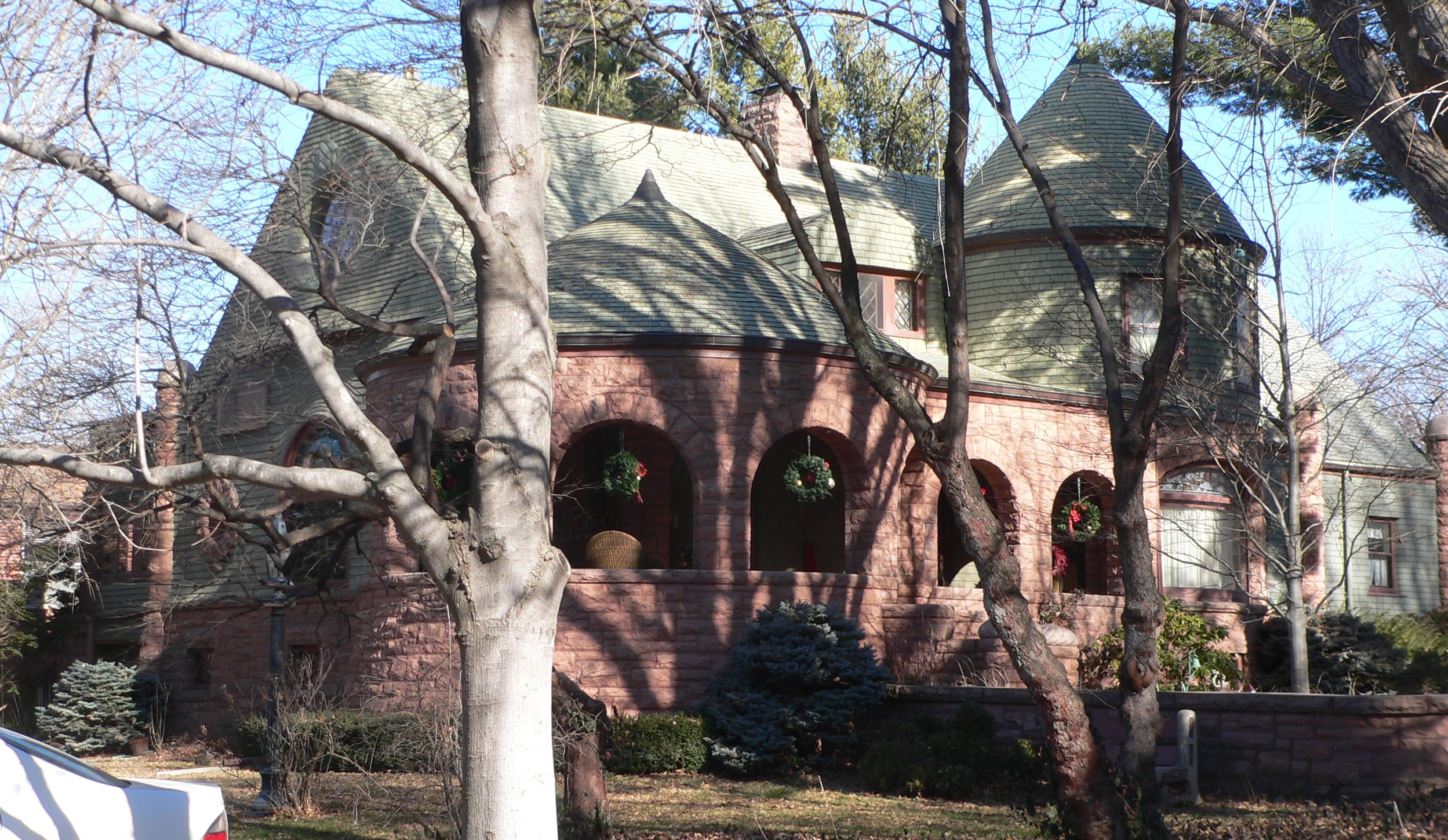 Arthur C. Ziemer house, located at 2030 Euclid Avenue in Lincoln, Nebraska; seen from the southwest.